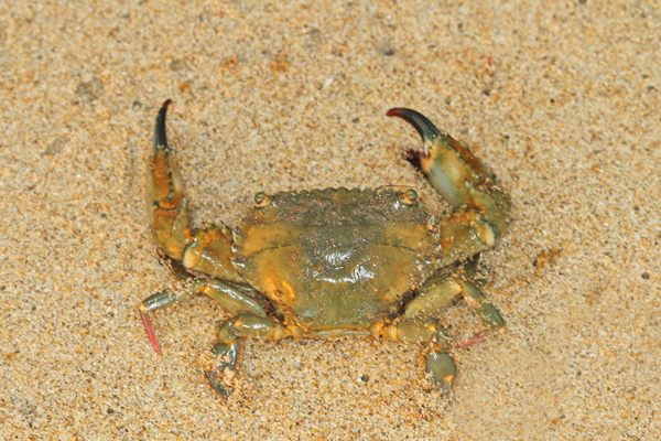 Thalamita crenata from Devbagh, Karwar, India